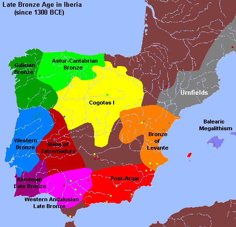 Map of Iberian Late Bronze Age since c. en:1300 BCE, showing the main cultural areas. Dots show isolated remains of these cultures outside their main area. Author:Sugaar Sources: diverse (notable: F. Jordá Cerdá et al. History of Spain 1: Prehistory. Gredos ed. 1986. ISBN: 84-249-1015-X